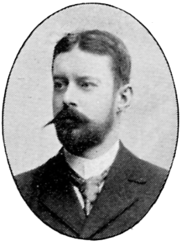 Image scanned from the book "Svenskt Porträttgalleri XX - Arkitekter, Bildhuggare, Målare m.fl. " ("Swedish Portrait Gallery XX - Architects, Sculptors, Painters, ") published 1901